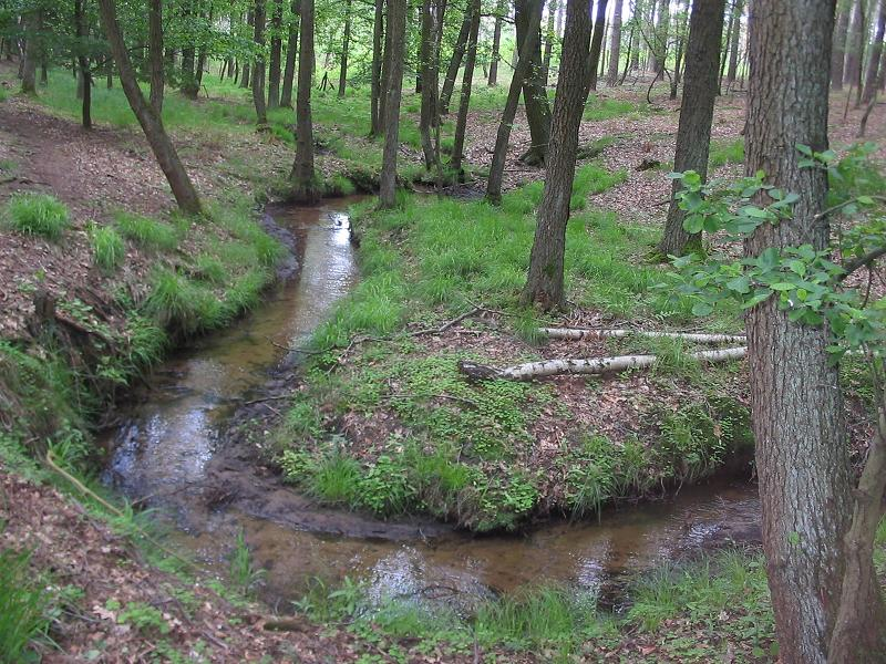 “Klein Briesener Bach“ (stream) between the villages Klein Briesen and Ragösen in the nature park Naturpark Hoher Fläming. The villages are parts of the town Belzig in the district Potsdam Mittelmark, state Brandenburg, Germany.